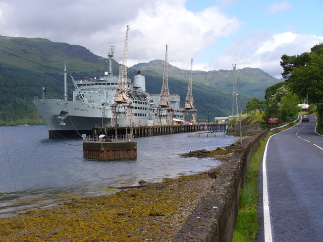 RFA Fort Austin at the Glen Mallan munitions facility on Loch Long.